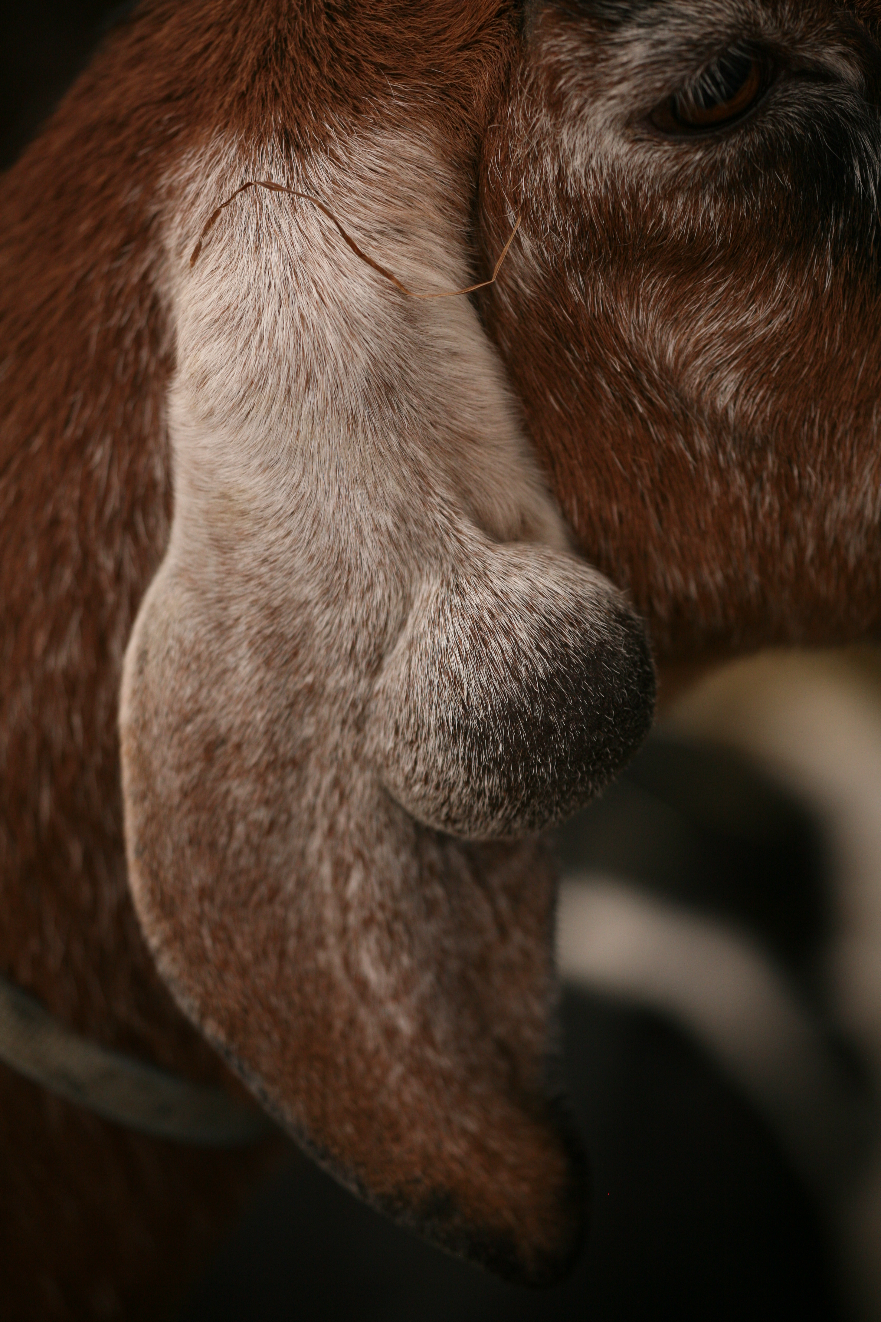 Goat ear tumor.